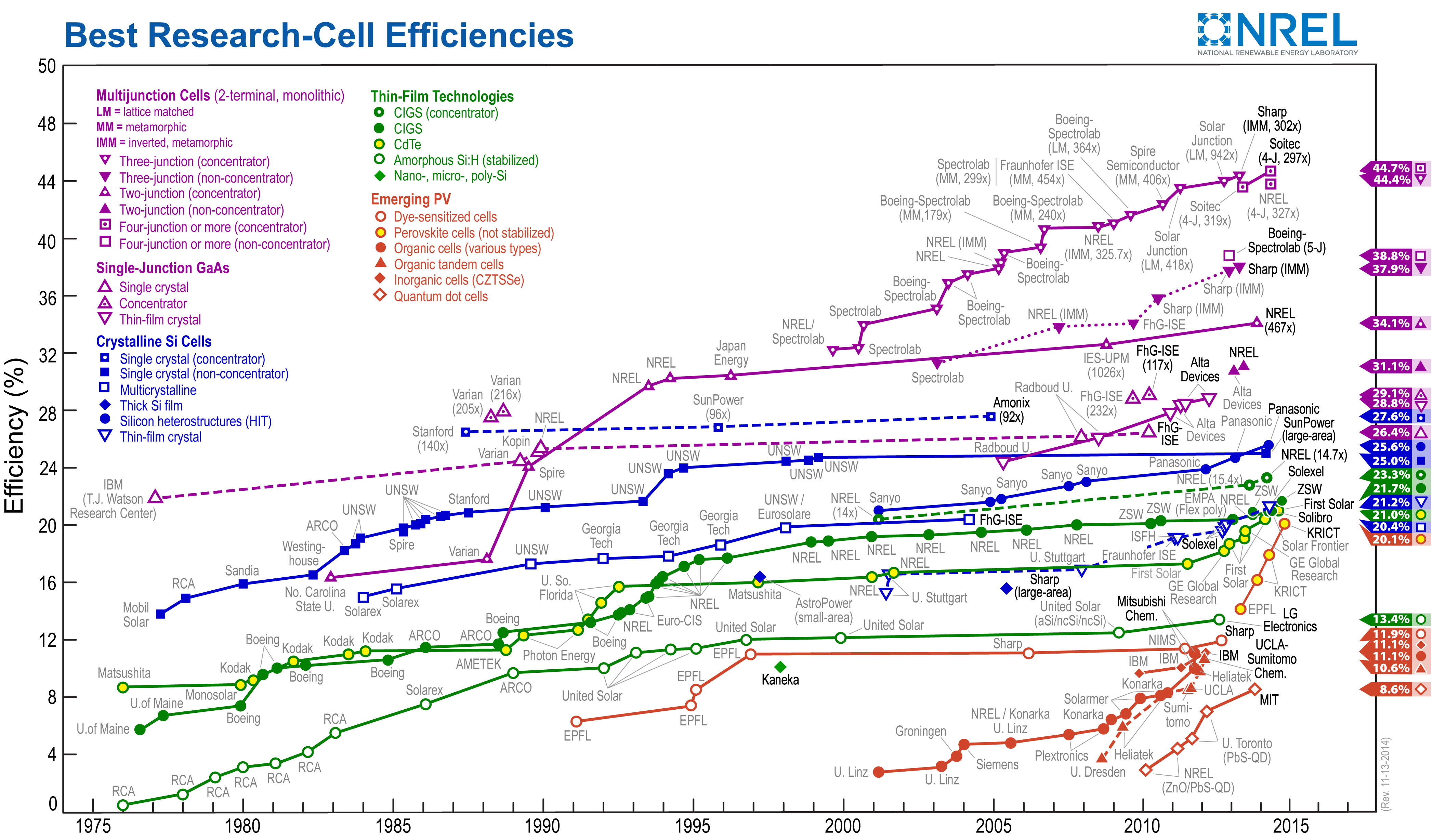 Conversion efficiencies of best research solar cells worldwide from 1976 through 2014 for various photovoltaic technologies. Efficiencies determined by certified agencies/laboratories.